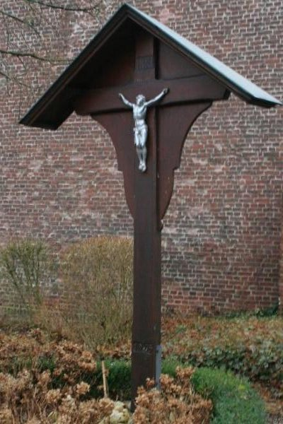 Cultural heritage monument No. 9 in Selfkant